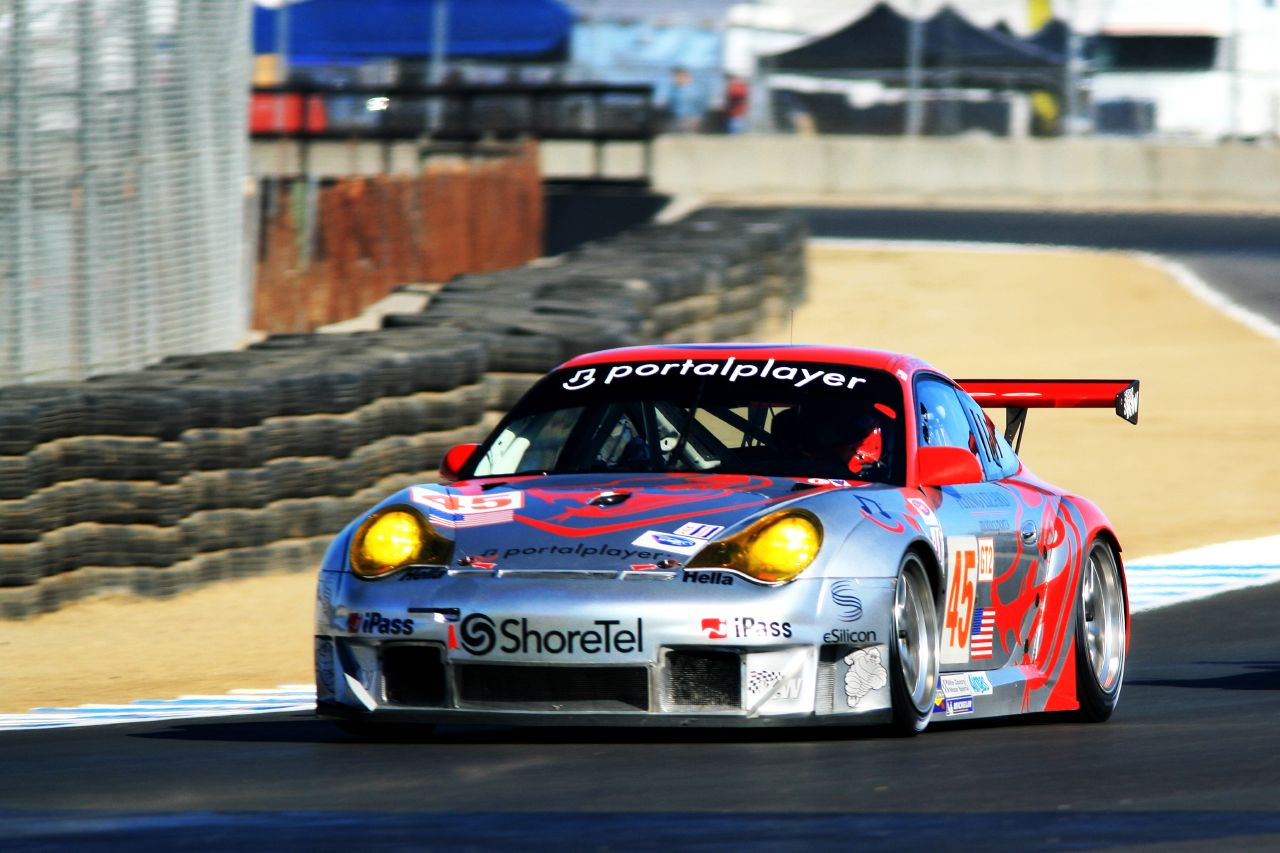 Johannes van Overbeek driving Flying Lizard Motorsport's Porsche 911 GT3-RSR